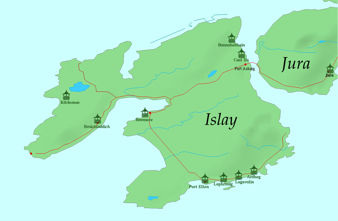 The Map of Distilleries in Islay, Scotland.